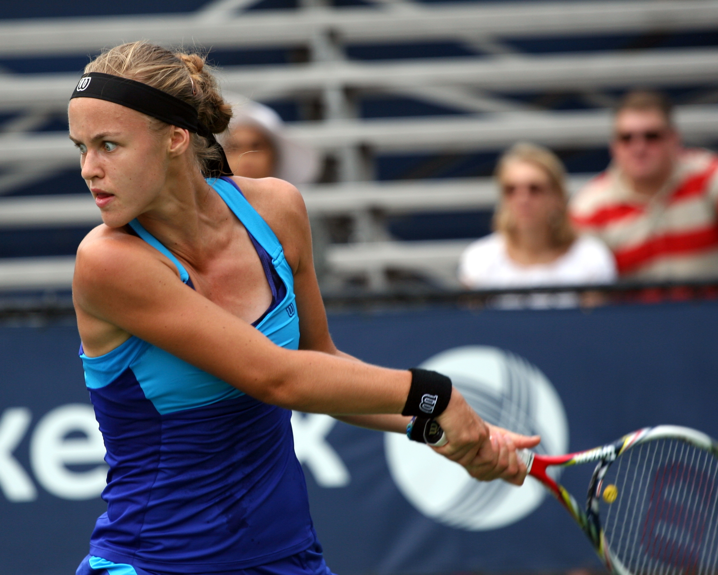 U.S. Open Thursday, Aug. 29, 2013